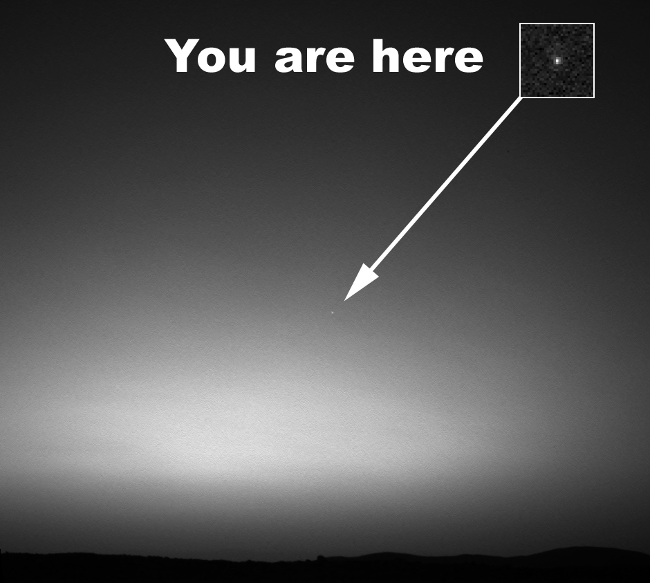 This is the first image ever taken of Earth from the surface of a planet beyond the Moon. It was taken by the Mars Exploration Rover Spirit one hour before sunrise on the 63rd Martian day, or sol, of its mission. (March 8, 2004) The image is a mosaic of images taken by the rover's navigation camera showing a broad view of the sky, and an image taken by the rover's panoramic camera of Earth. The contrast in the panoramic camera image was increased two times to make Earth easier to see.The inset shows a combination of four panoramic camera images zoomed in on Earth. The arrow points to Earth. Earth was too faint to be detected in images taken with the panoramic camera's color filters. Credit: NASA/JPL/Cornell/Texas A&M NASA Goddard Space Flight Center is home to the nation's largest organization of combined scientists, engineers and technologists that build spacecraft, instruments and new technology to study the Earth, the sun, our solar system, and the universe. Follow us on Twitter Join us on Facebook '